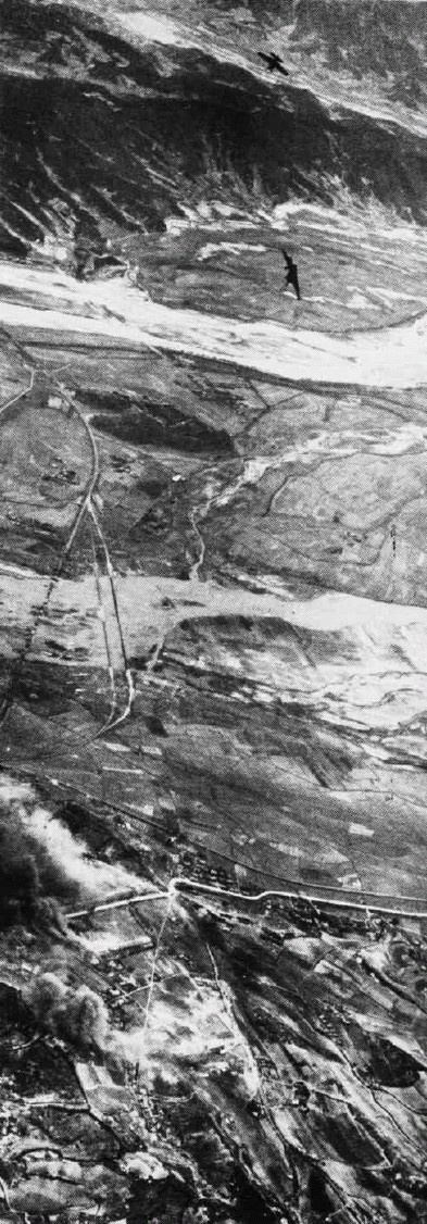 Two Douglas AD-4 Skyraiders of U.S. Navy attack squadron VA-75 Sunday Punchers rolling in on a target during the Korean War on 24 June 1952. VA-75 was assigned to Carrier Air Group 7 (CVG-7), which attacked the marshalling yards near Tanchon, Korea. It was deployed to Korea on the aircraft carrier USS Bon Homme Richard (CV-31) from 20 May 1952 to 3 January 1953.